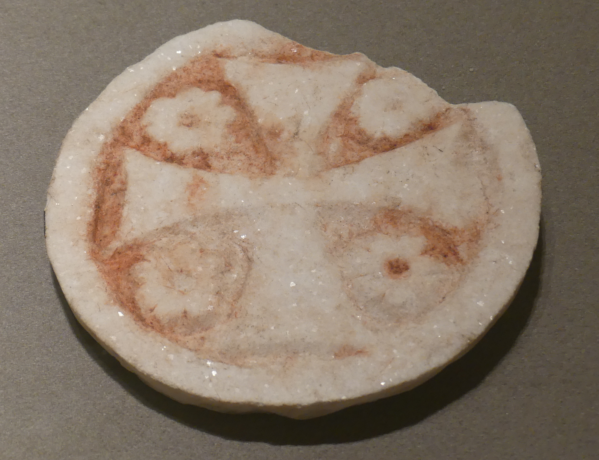 "Ornamental Elements Plates decorated with crosses, marble Tyre, Byzantine Period" On display at the National Museum of Beirut, Lebanon